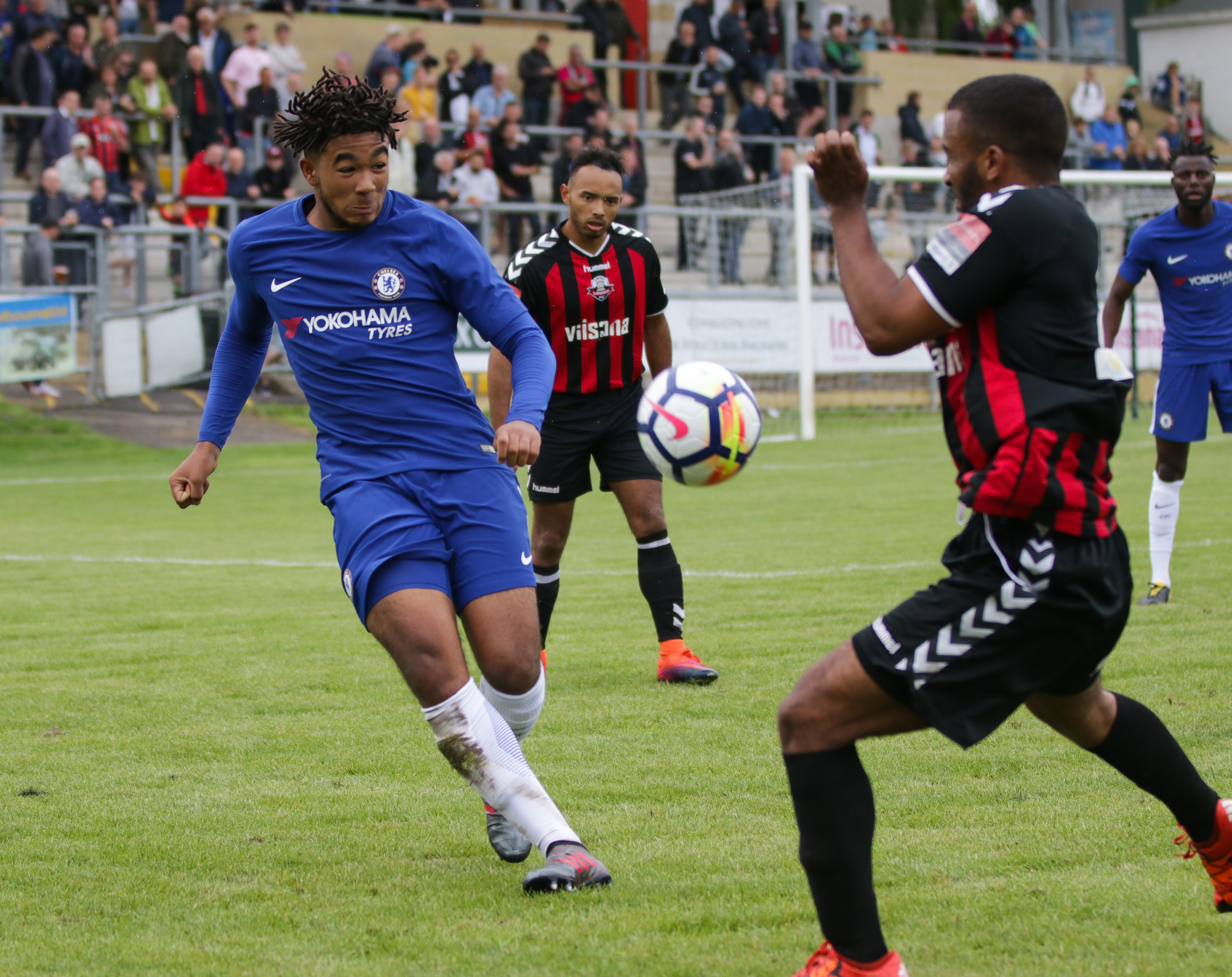 Lewes 0 Chelsea DS 1 Pre Season 22 07 2017-699.jpg